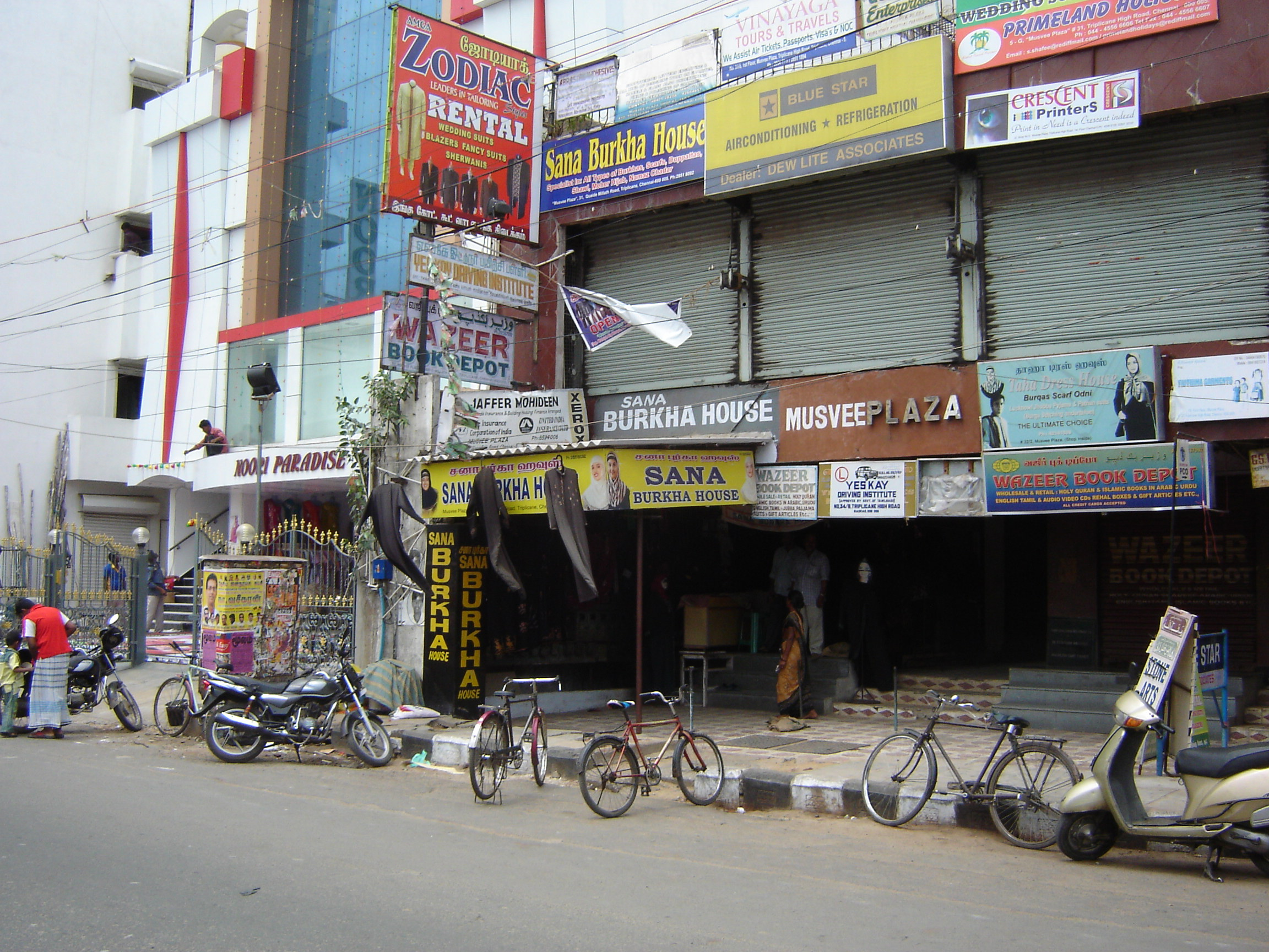 Quaide Milleth Salai (Triplicane High Road), Triplicane, Chennai